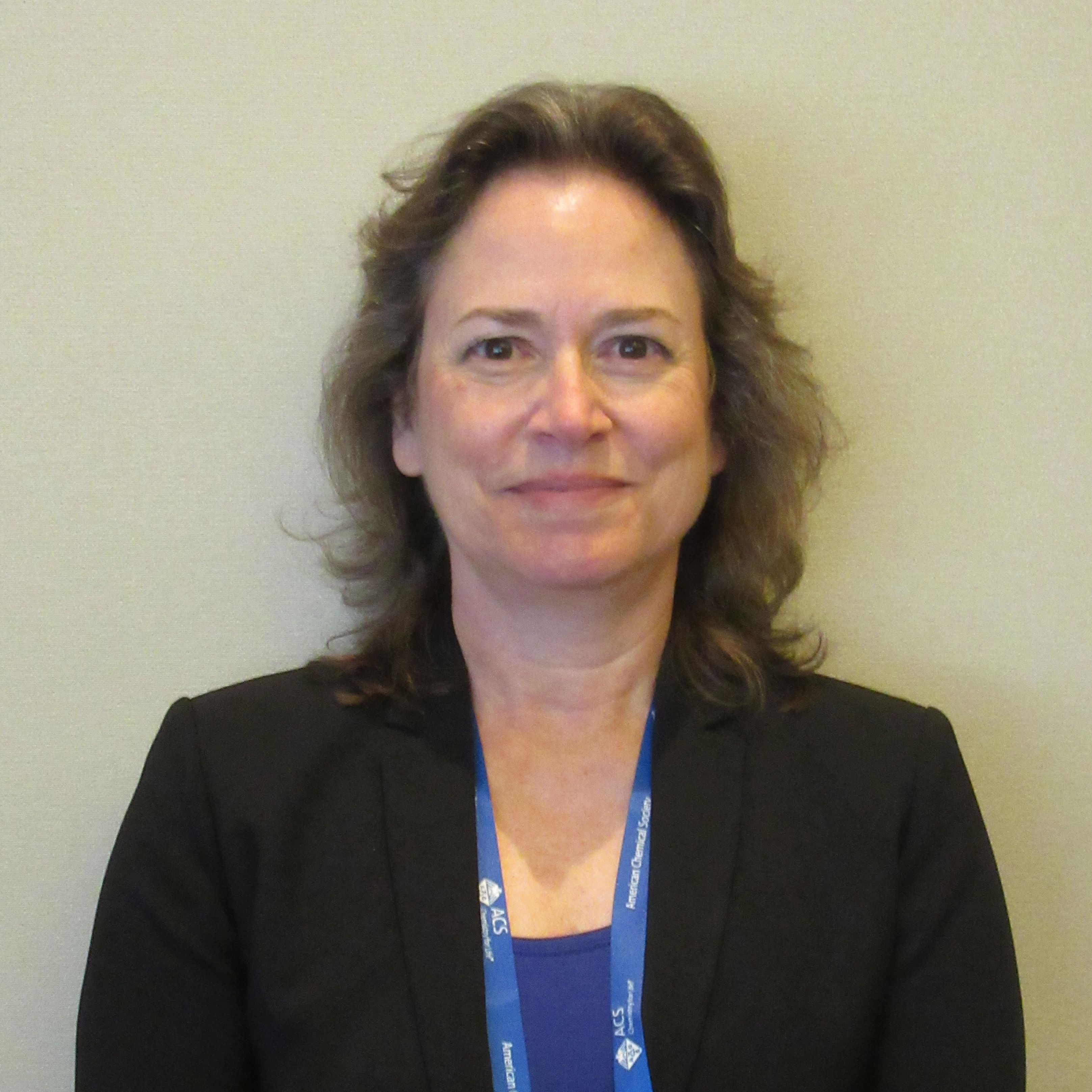 Prof. Emily A. Carter, computational chemist from Princeton University. Picture taken at the National Meeting of the American Chemical Society in Boston in August 2018.